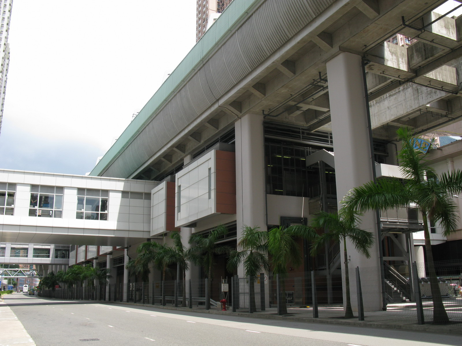 Ma On Shan Station